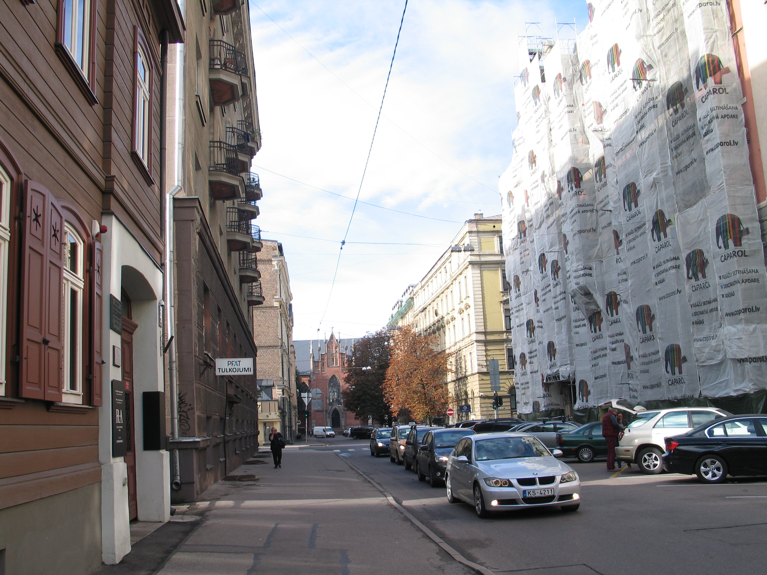 Baznīcas street in Riga